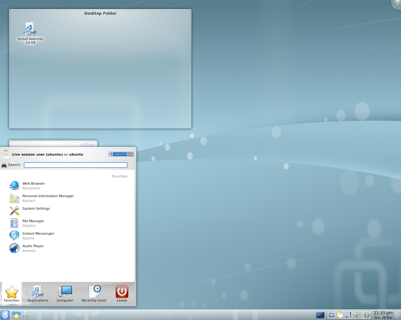 Kubuntu 10.04, default desktop appearance on startup (Live Daily Build)